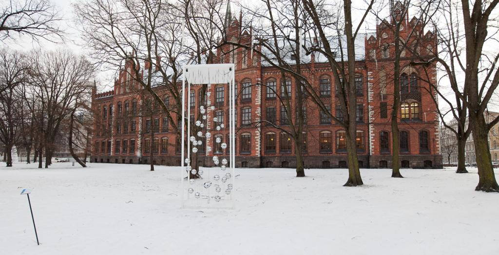 Artwork "Vēja egle" by Daina Skadmane, displayed outside the Latvian Art Academy in Riga, December 2015.